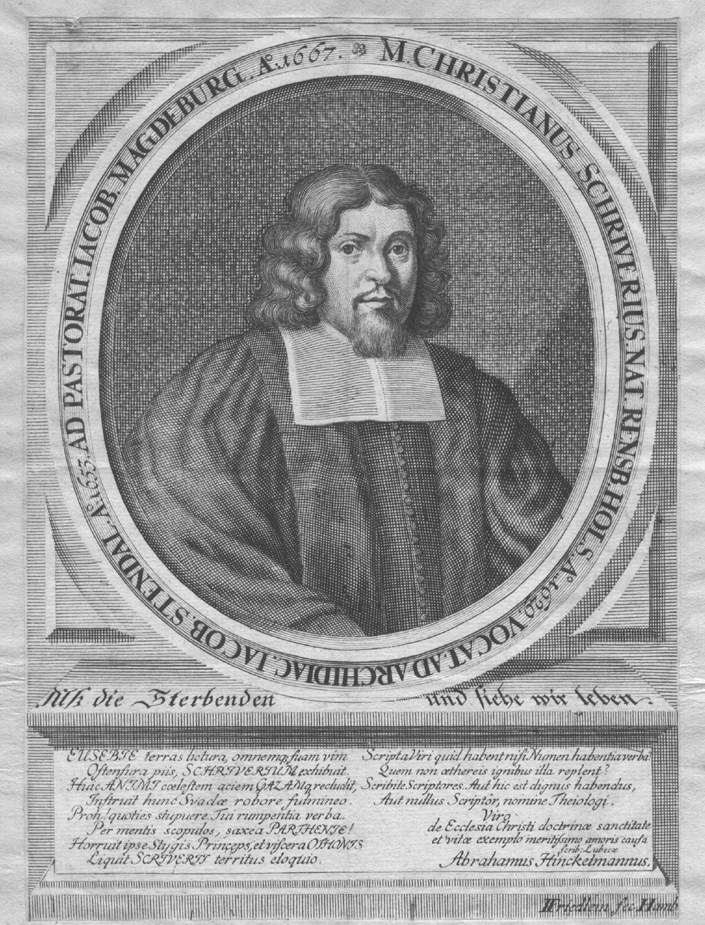 Portrait of Christian Scriver (1629-1693)